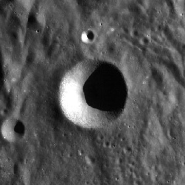 Heyrovsky crater, on the far side of the moon. Mosaic of LRO WAC images. Aspect ratio adjusted from Mercator Projection.